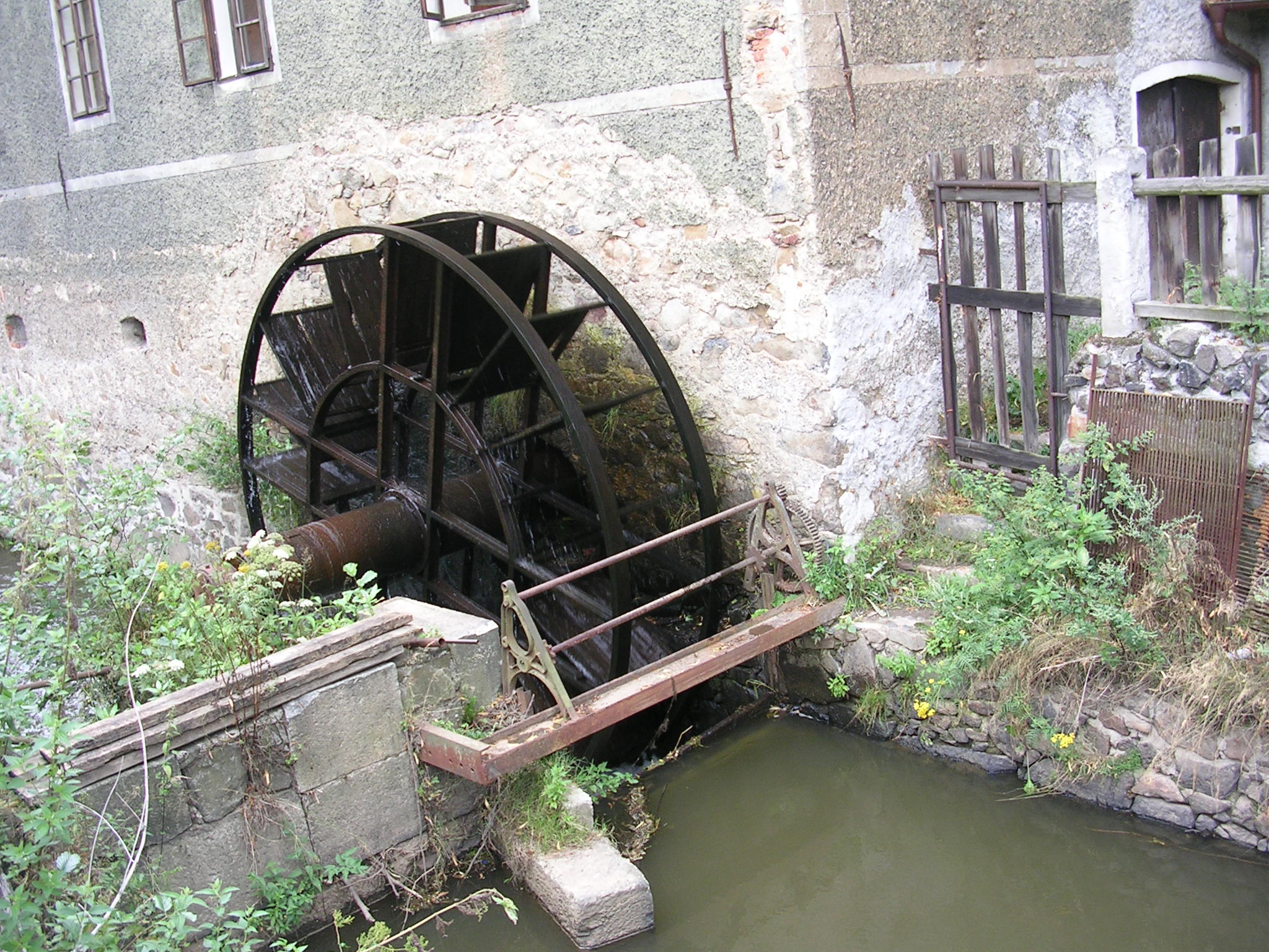 Jakubov Mill, municipality of Vojkovice, Karlovy Vary District, Karlovy Vary Region.